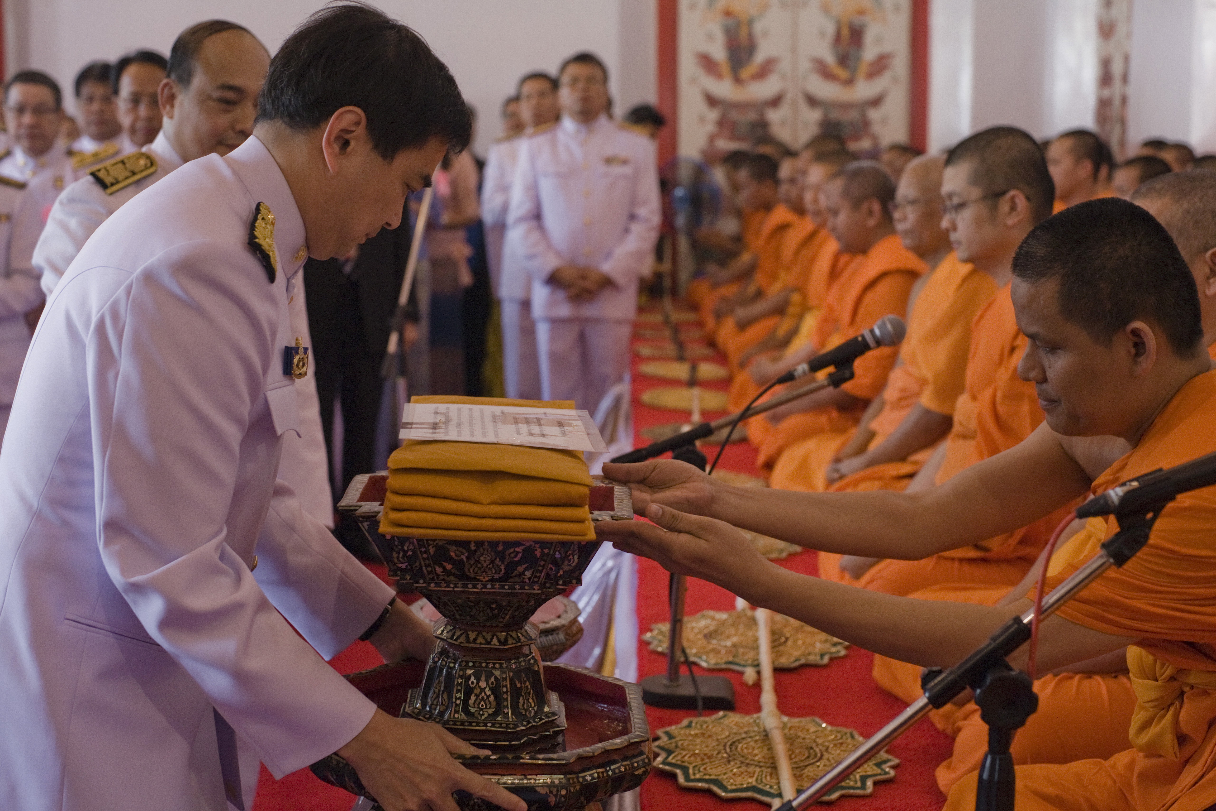 Thai Prime Minister Abhisit offer Kathina robes to monks at 2010 Kathina